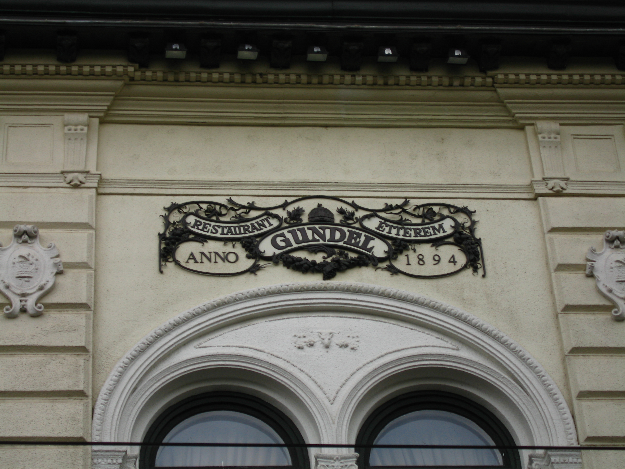 Gundel restaurant Budapest (Coat of arms)